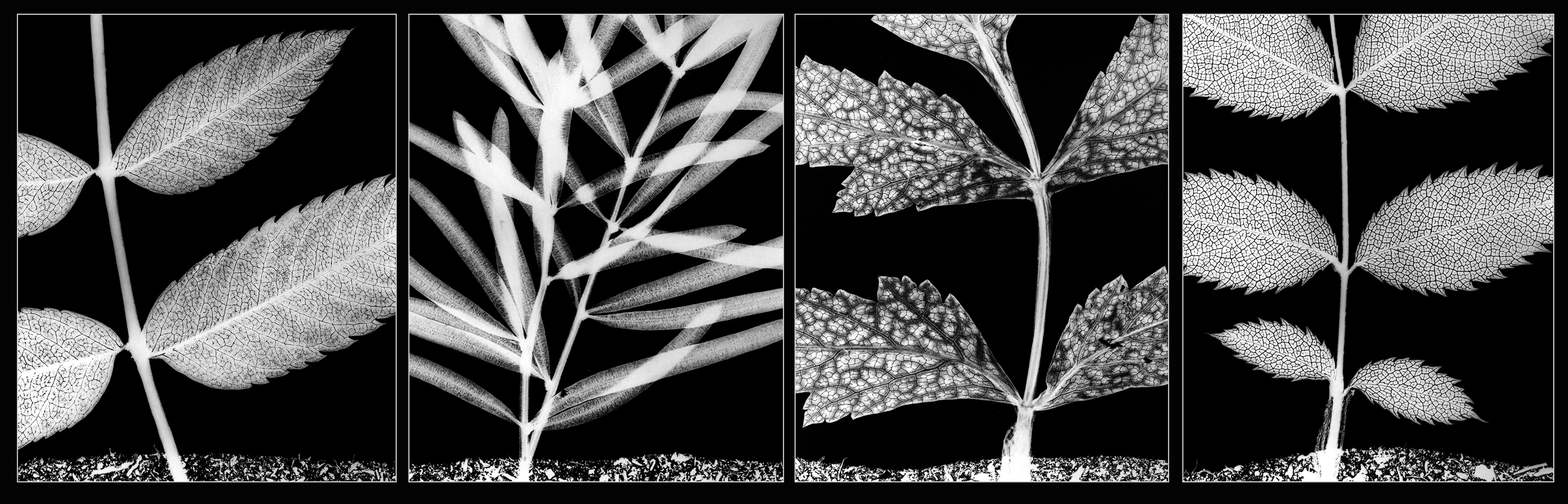 Photogram with plants and soil, from Jonn Leffmann's photo suite "Herbarium" 1999.